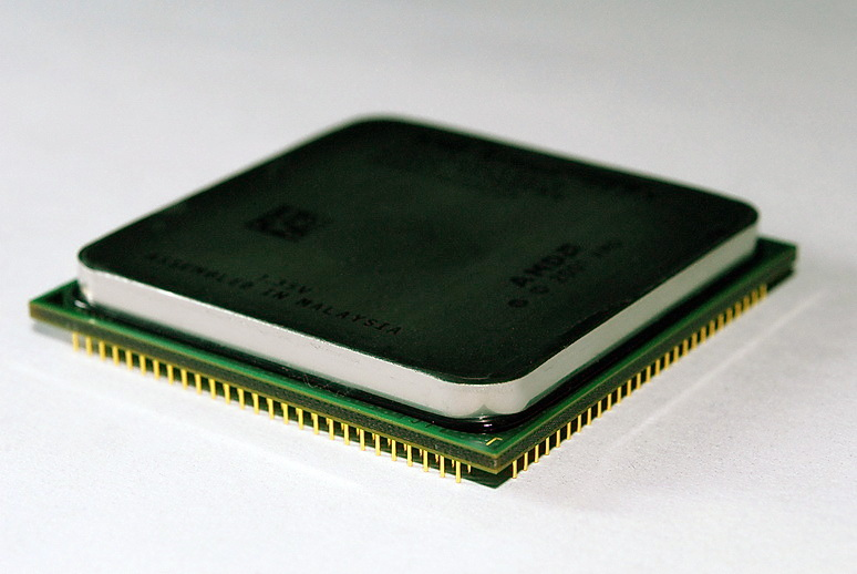 AMD Athlon™ X2 Dual-Core Processor 6400+ in AM2 package